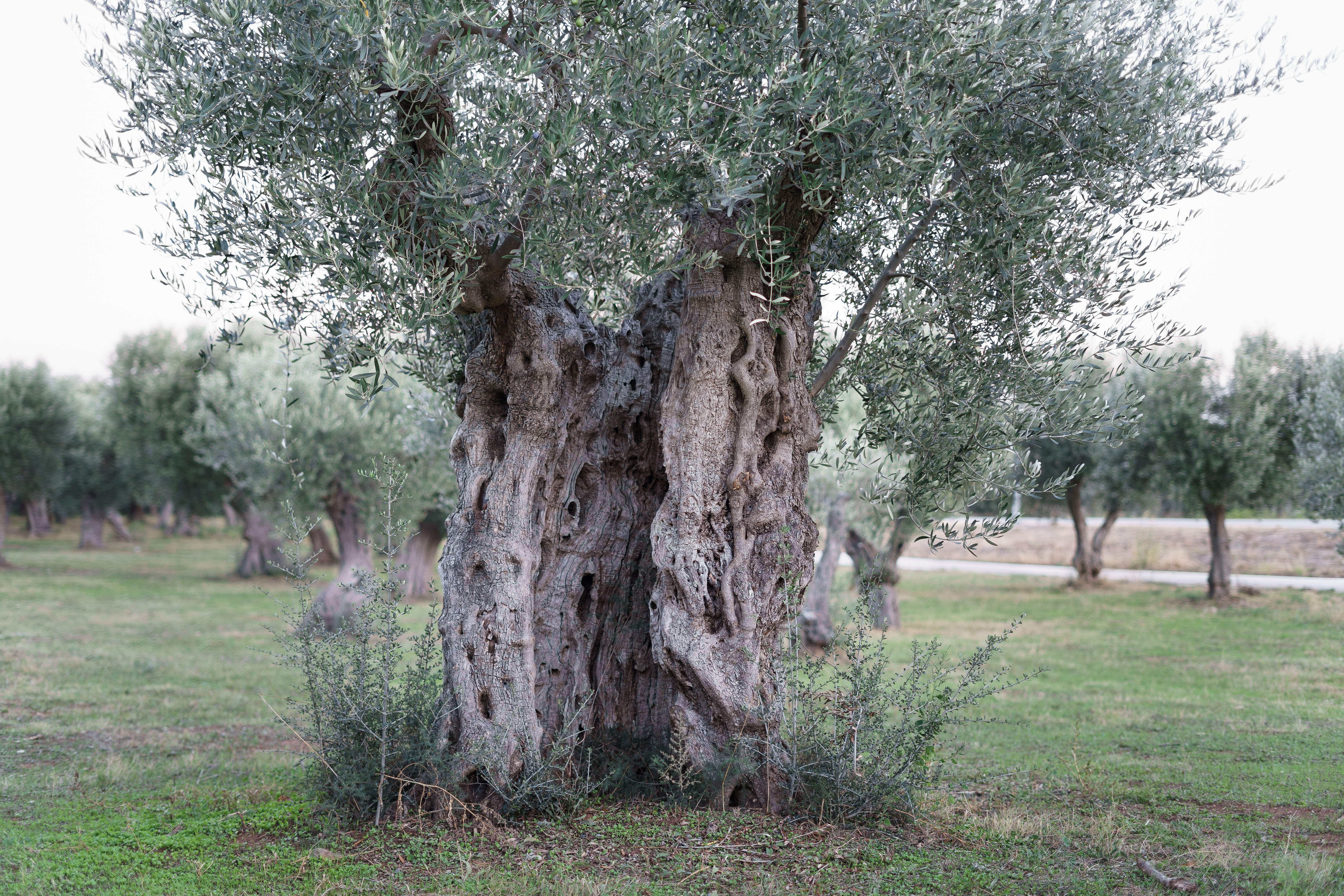 Olive grove near Alexandroupolis / Greece